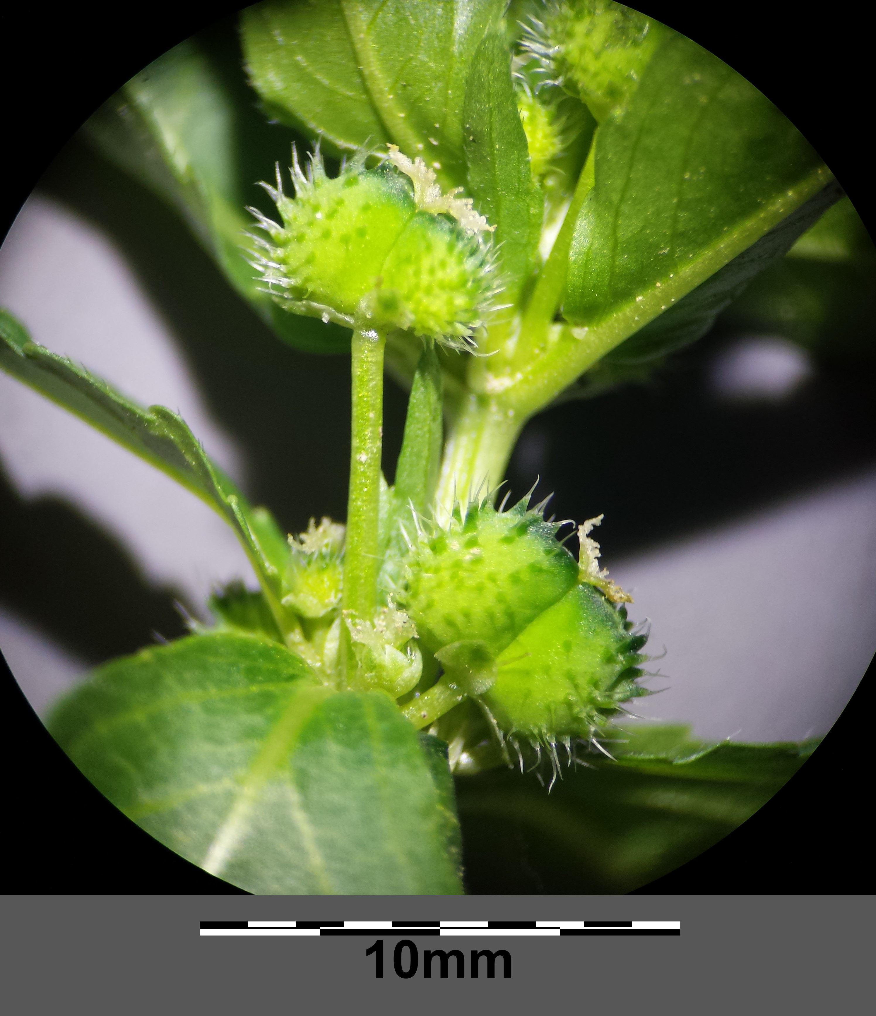 Infructescence (♀ plant) Taxonym: Mercurialis annua ss Fischer et al. EfÖLS 2008 ISBN 978-3-85474-187-9 Location: near Niederhollabrunn, district Korneuburg, Lower Austria - ca. 325 m a.s.l. Habitat: wine yard